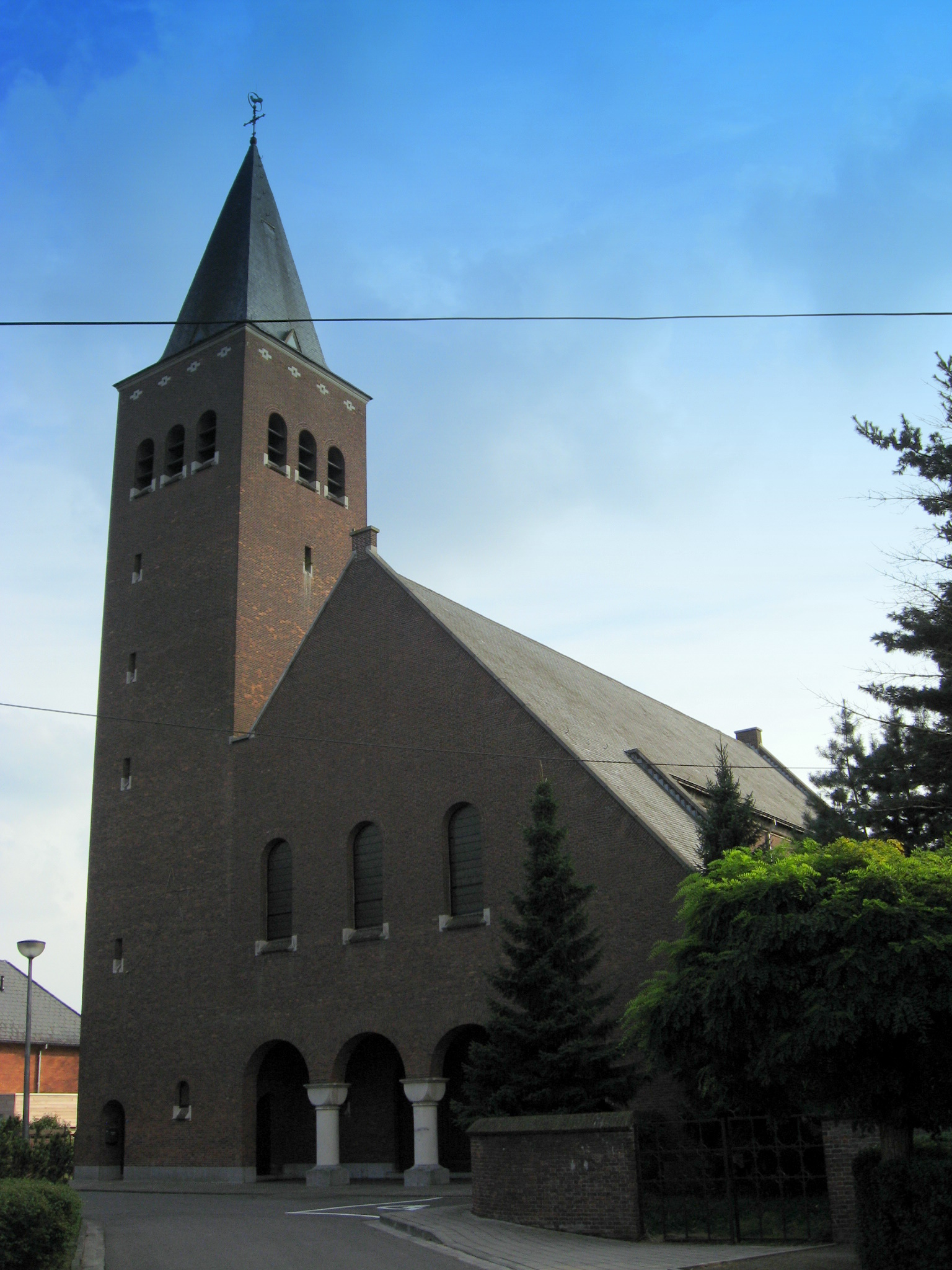 Church of Saint Anthony the Abbot in Donk, Mol, Antwerp, Belgium